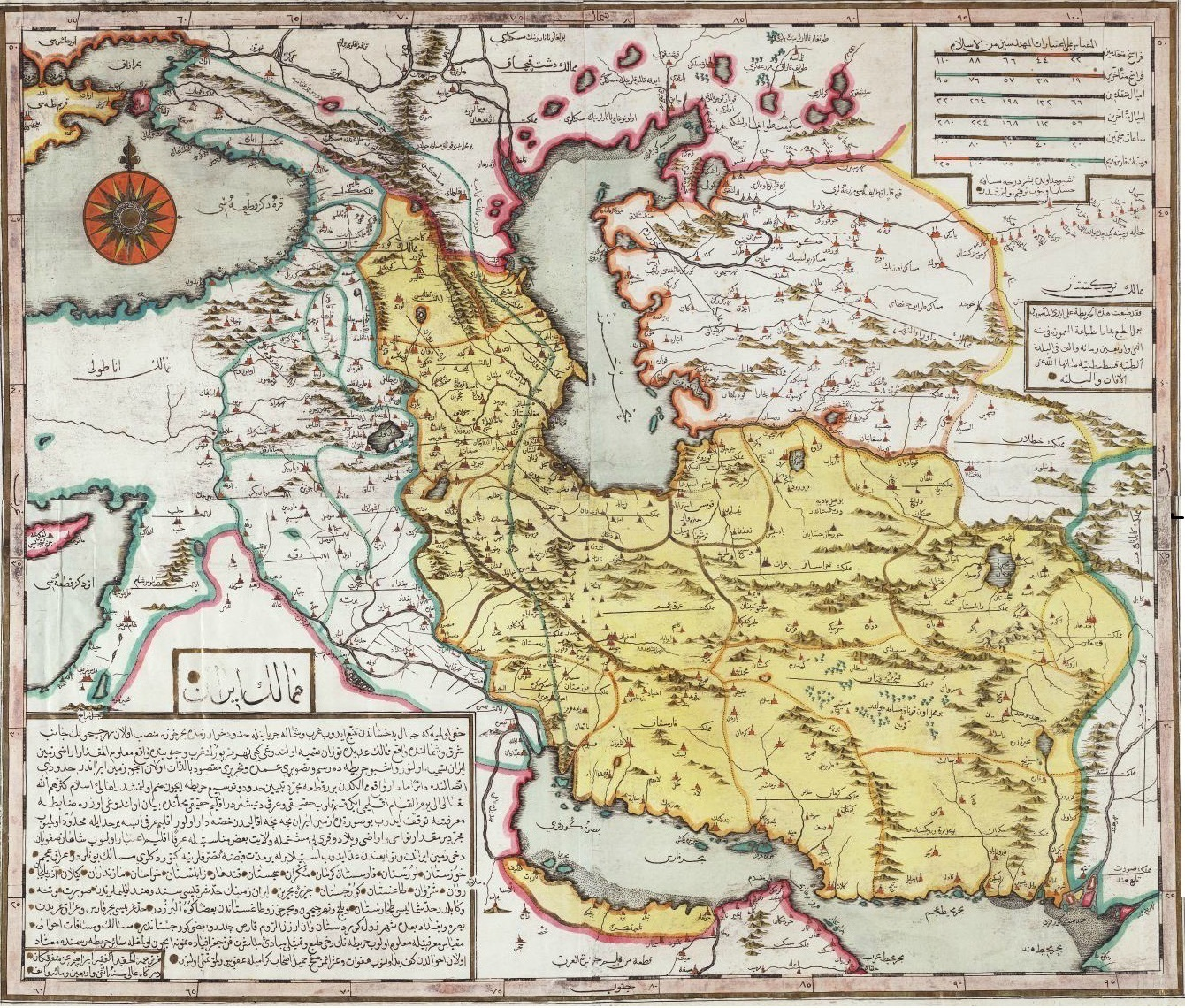 persian gulf in the othoman maps 1729 ibrahim motafareka turky